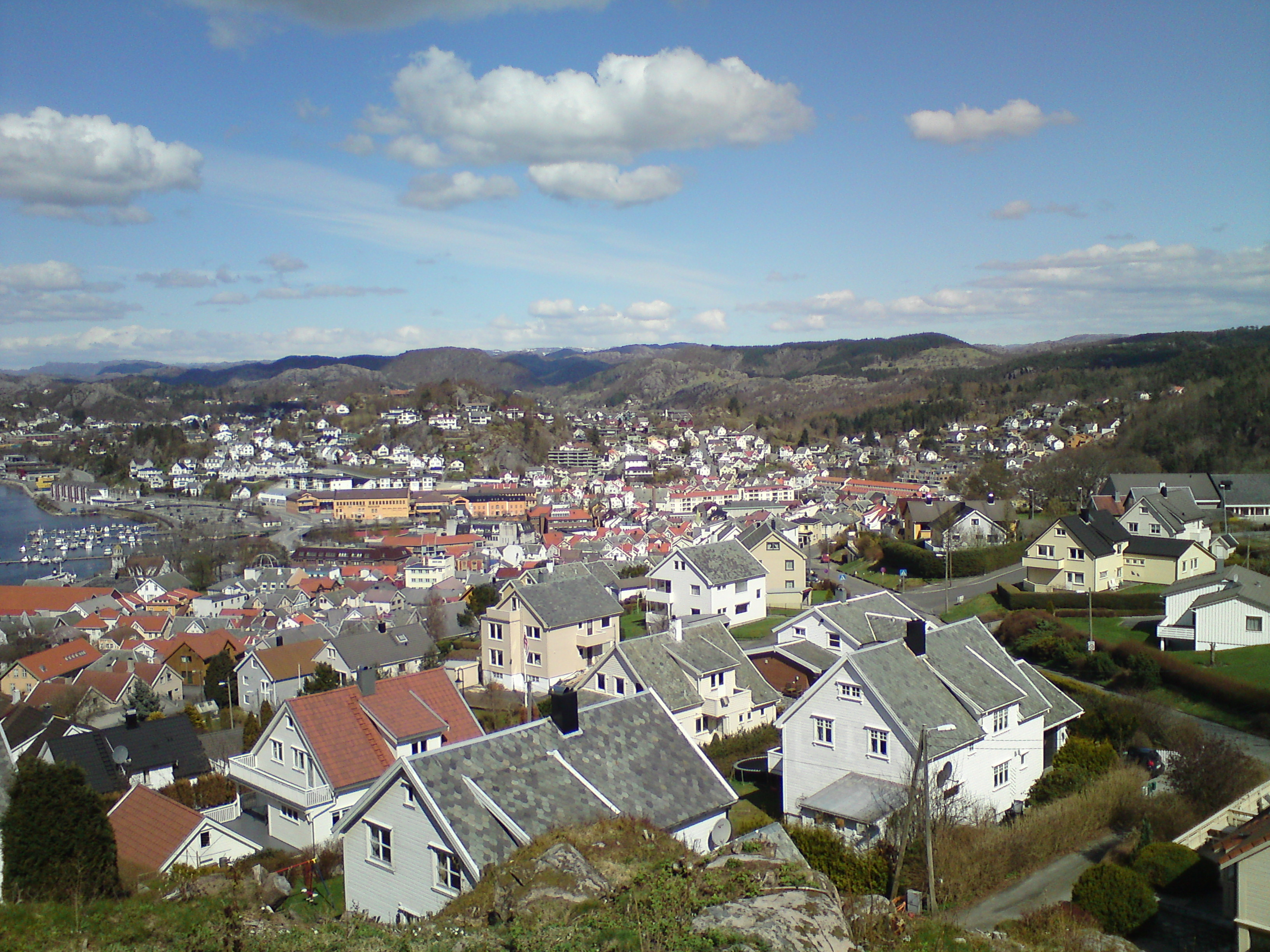 Photo of Egersund taken from Varberg.